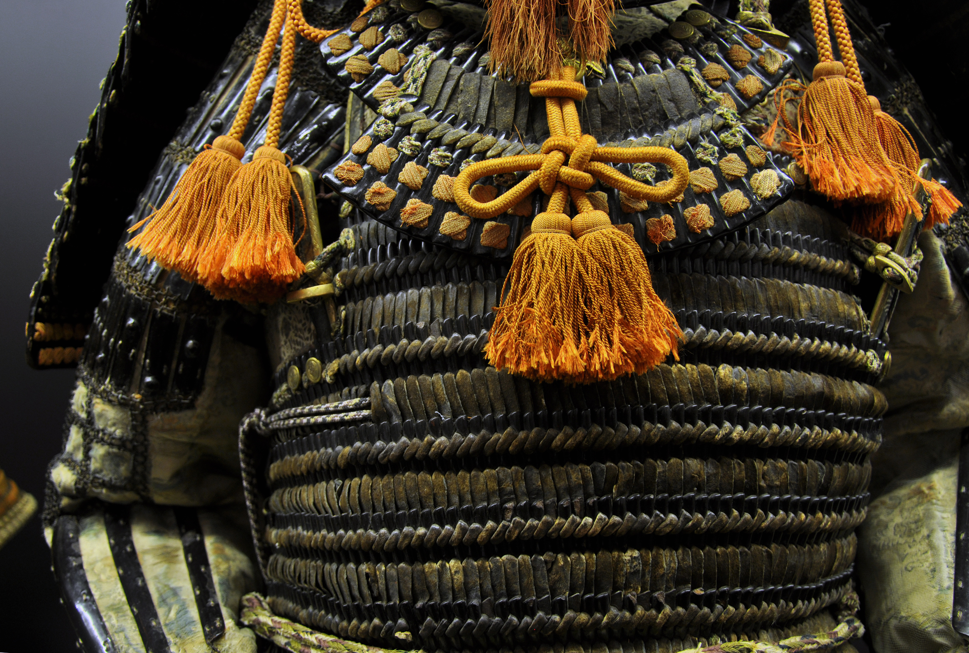 Armour (domaru tosei gusoku ), begining of the 17th century, end of the Momoyama period, Japan . Ann and Gabriel Barbier-Mueller Museum, Dallas (Texas) ; the photograph was taken during an exhibition in the Musée des Arts Premiers in Paris.